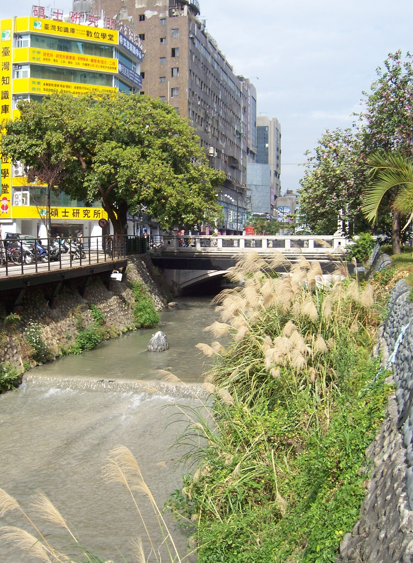 Lyu Chuan,Central District,Taichung City,Taiwan. This picture is taken near the corner of Lyuchuan E. St. and Jhungshan Rd.